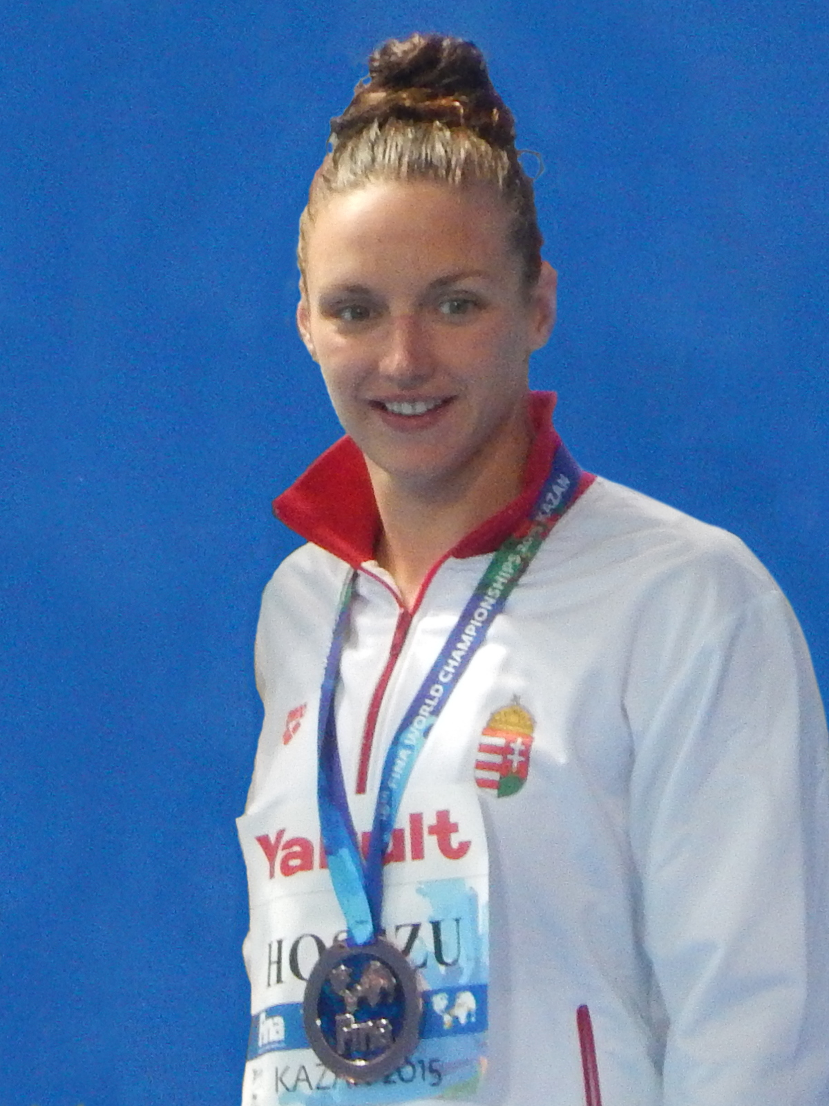 Katinka Hosszú with bronze medal of 200m backstroke on 2015 World Aquatics Championships, Kazan